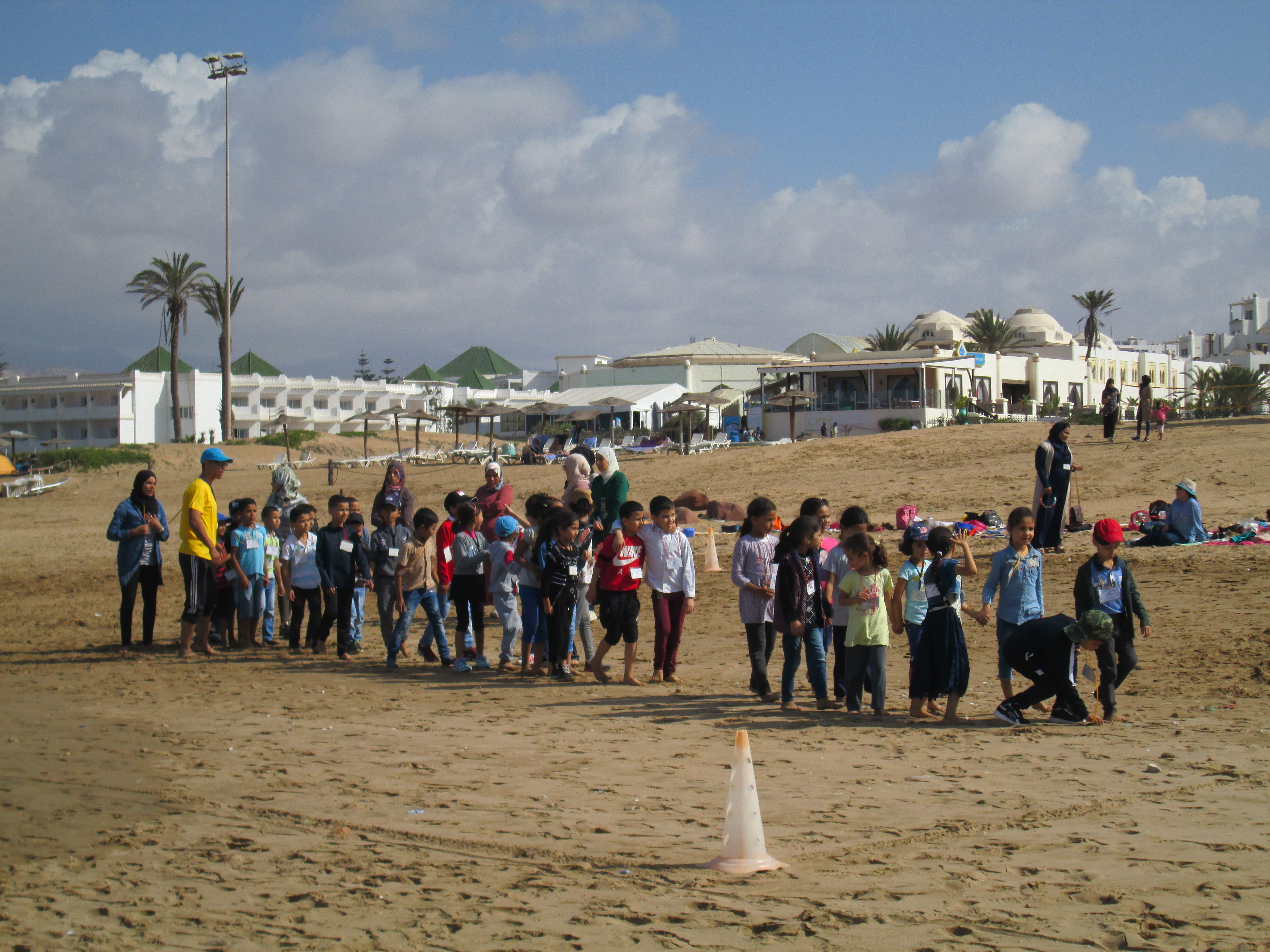 Moroccan children at beach, 2018.